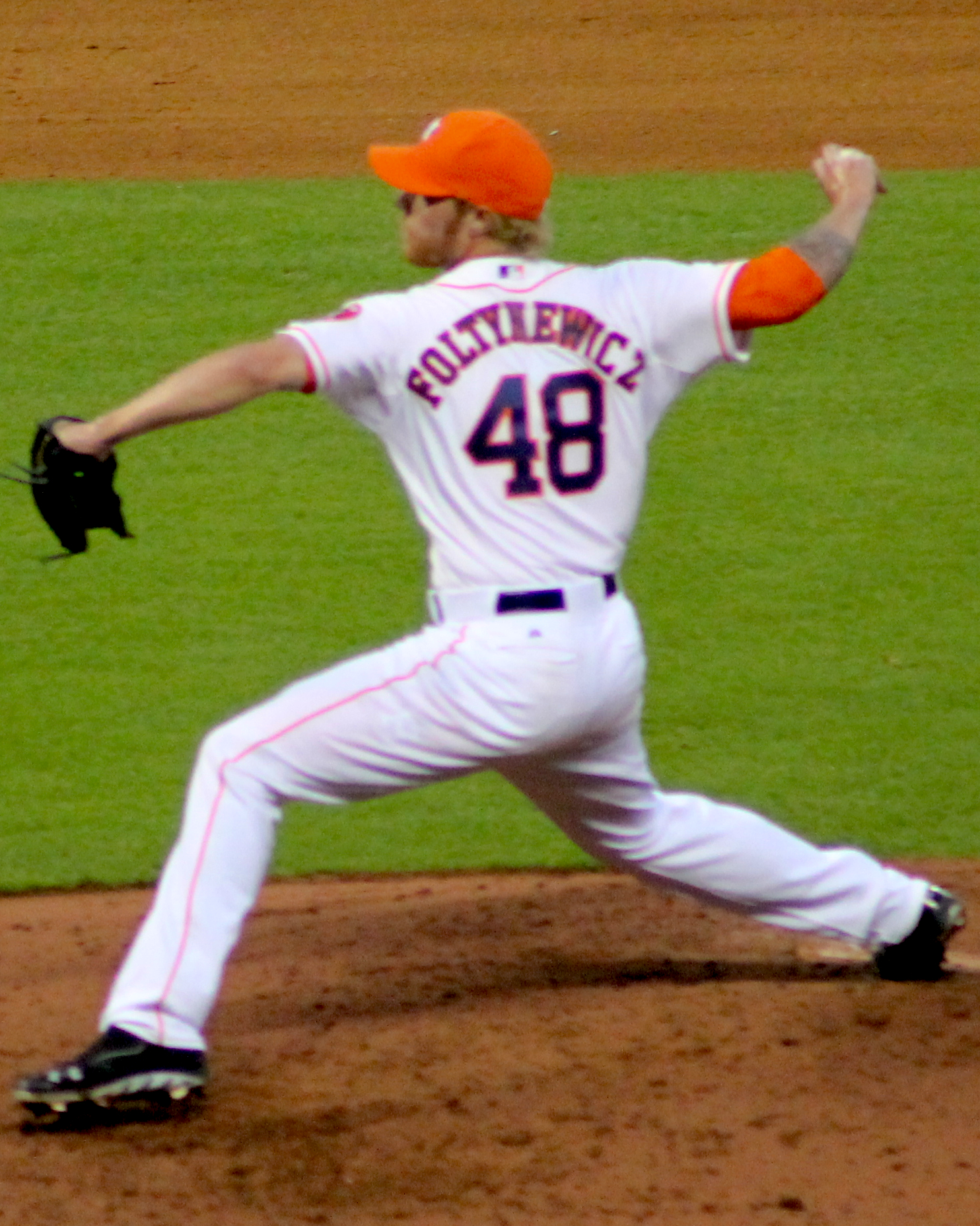 Baseball pitcher Michael Foltynewicz during his major league debut at Minute Maid Park in August 2014.